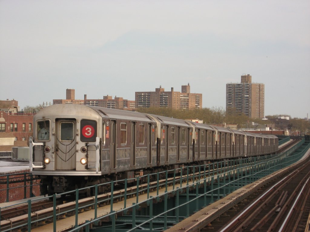 A #3 train entering Sutter Avenue-Rutland Road.